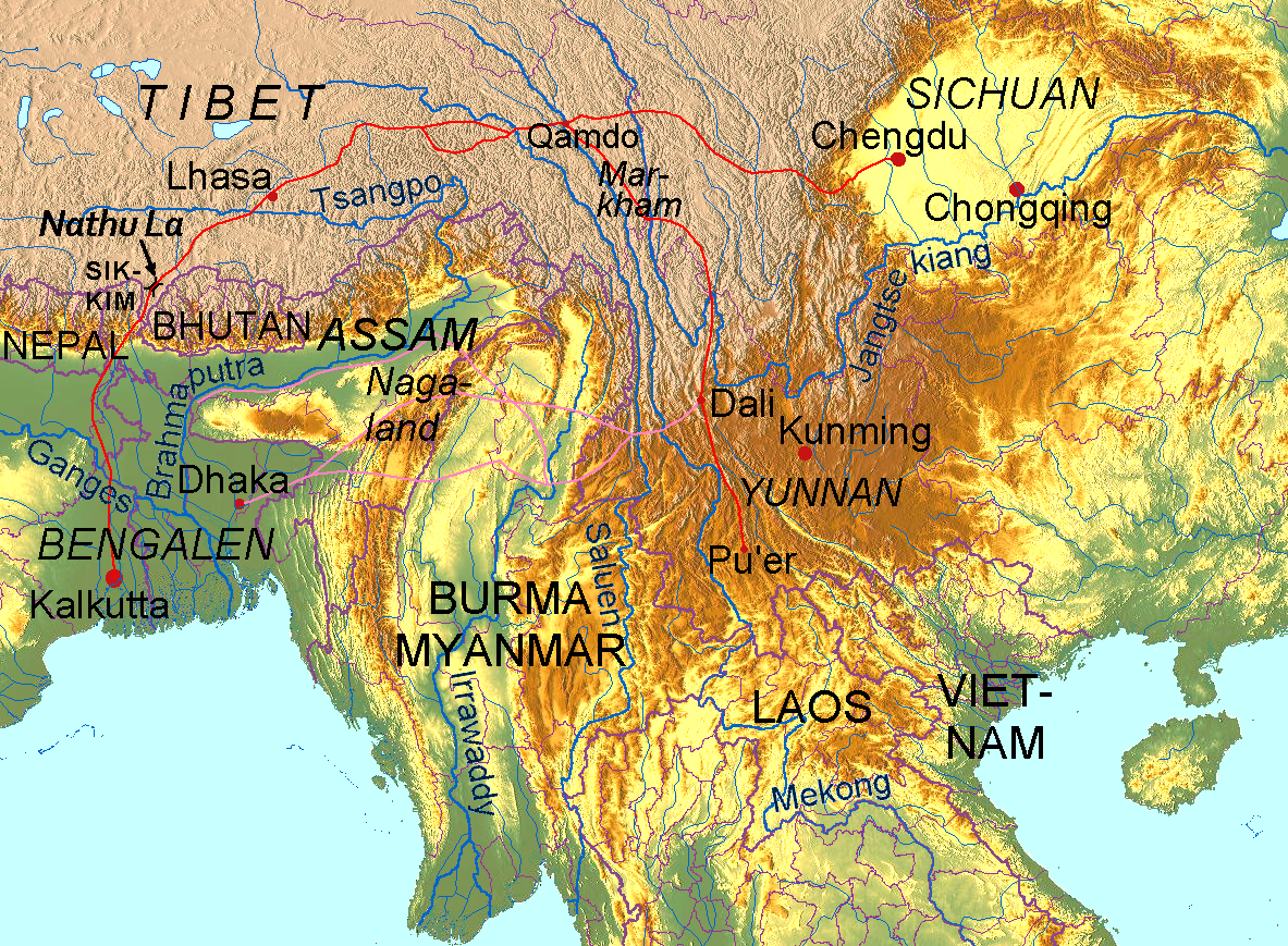 The Tea-Horse-Road, one of the ancient Tea routes, with variants itself. The courses are drawn according to a combination of informations from Chinaexpat: The ancient Tea-Horse-Road, and informations from Andrées Weltatlas from 1880, printed, when the route was a main traderoute, still.